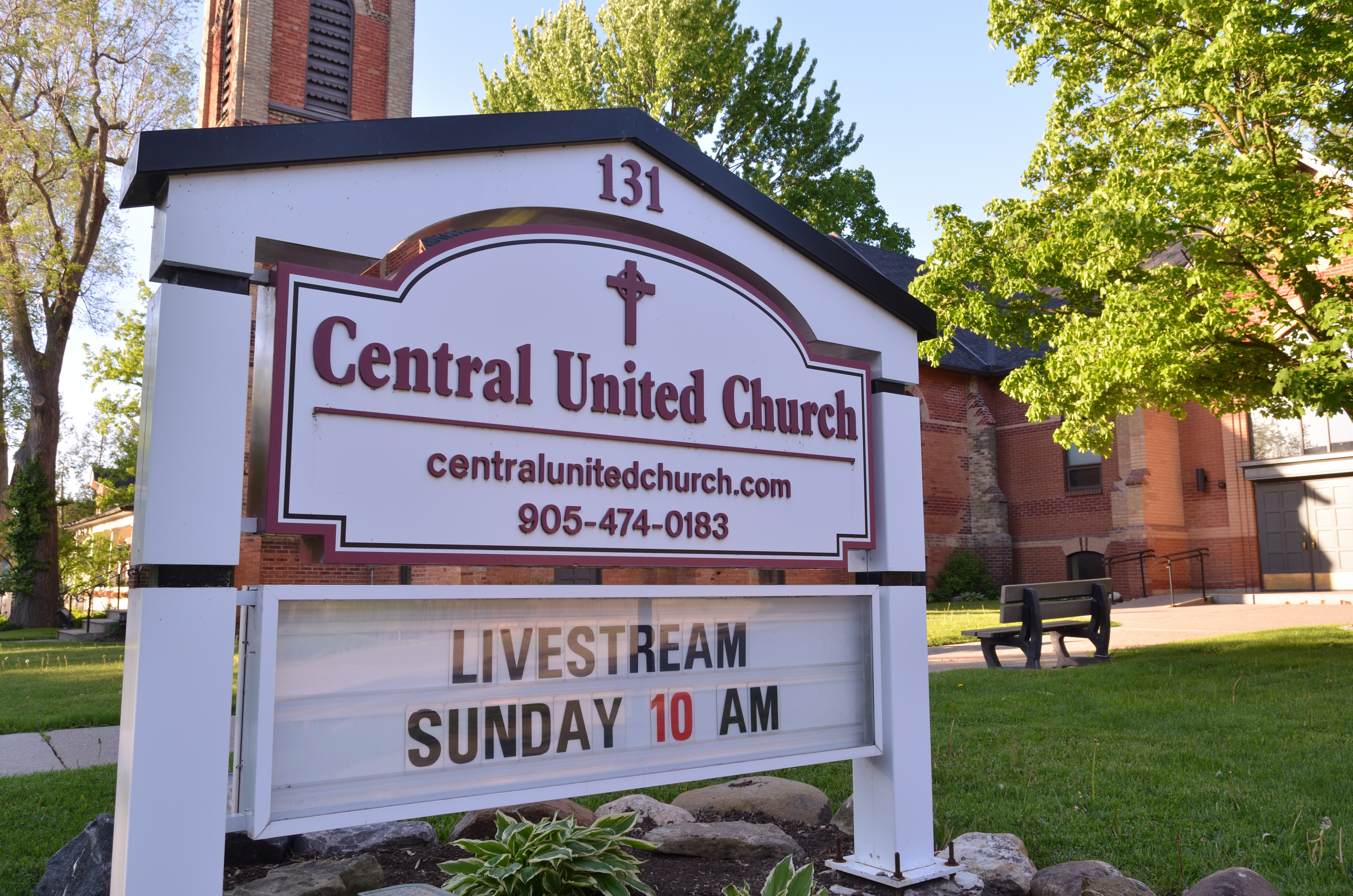 Central United Church - Address: 131 Main St Unionville, Unionville, ON L3R 2G3